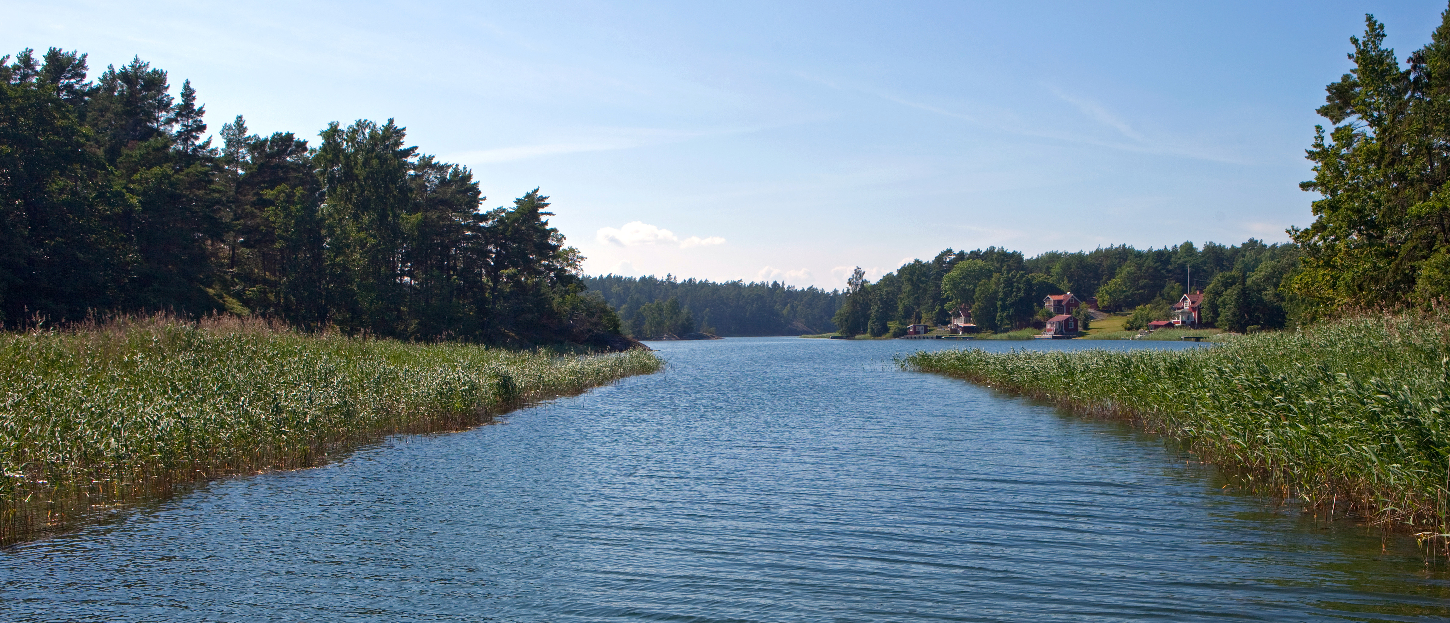 Channel between Hjälmö (left) and Gränö (right) in the Stockholm archipelago.